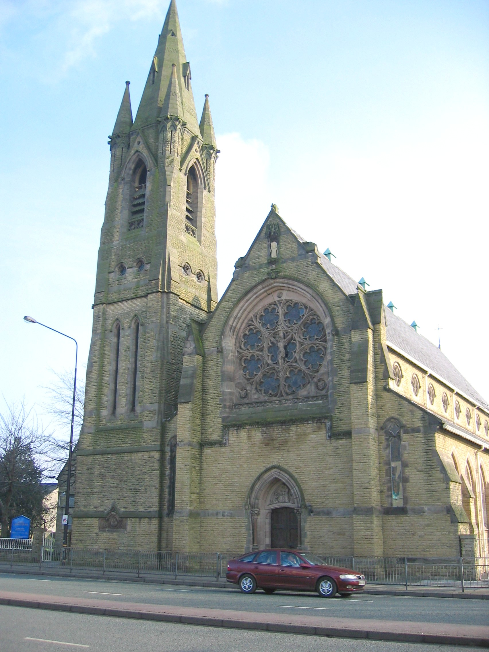 Roman Catholic church of St Ann, Chester Road, Stretford, Greater Manchester, seen from the west